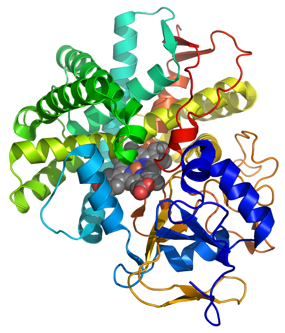 Cartoon diagram of human prostacyclin synthase, heme group visible at center. Orientation made to match figure in original source. Created using PyMOL ( and GIMP.